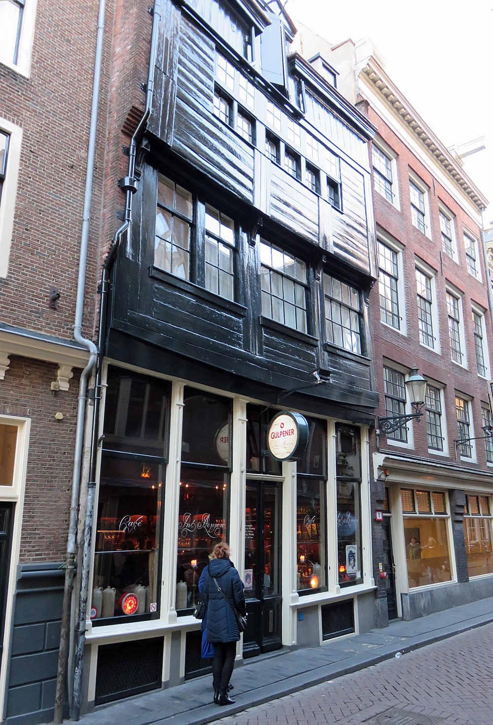 't Aepjen at Zeedijk 1 in Amsterdam, a one of two surviving wooden houses in the city, built between 1546 and 1550. Since 1987, the ground floor is bar named In 't Aepjen.